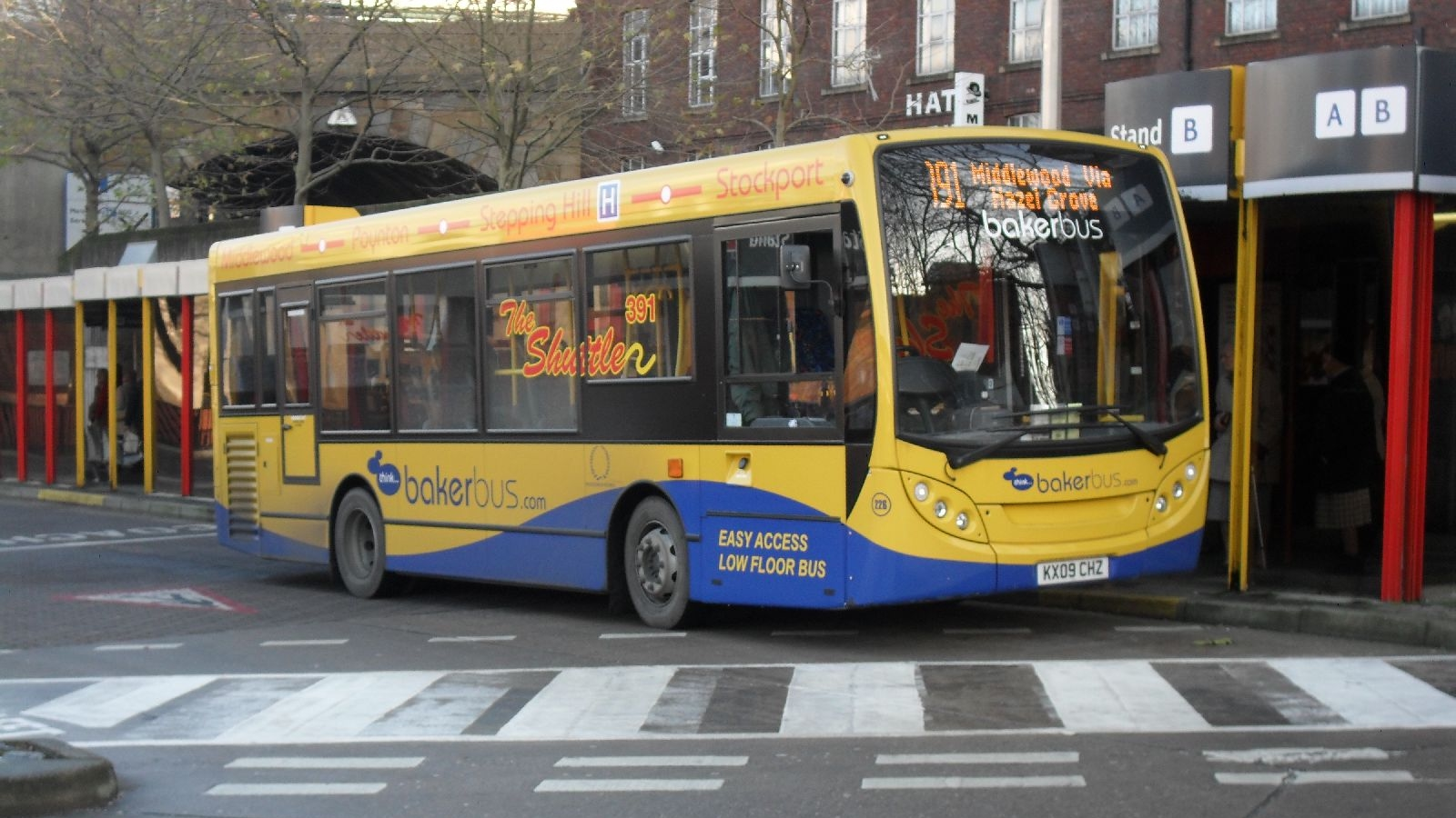 BakerBus KX09 CHZ, an Alexander Dennis Enviro200 Dart, at Stockport on route 191.